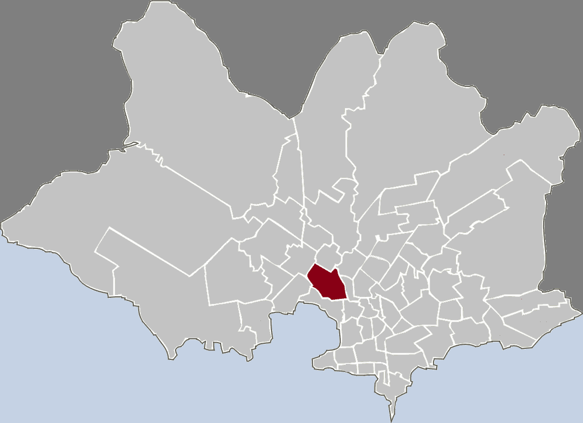 Map highlighting the given barrio in Montevideo.